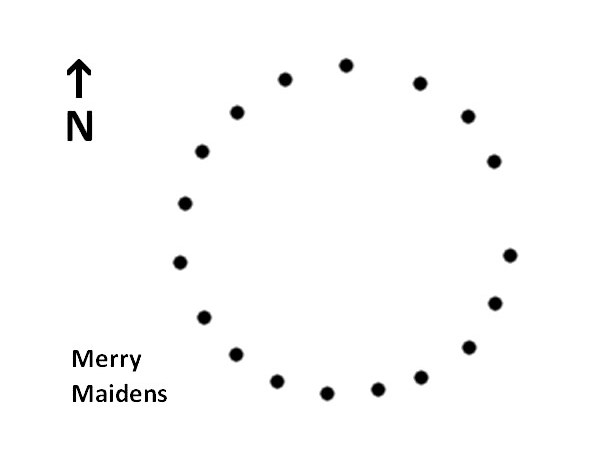 Merry Maidens - Stone Circle - Lamorna, Cornwall, UK